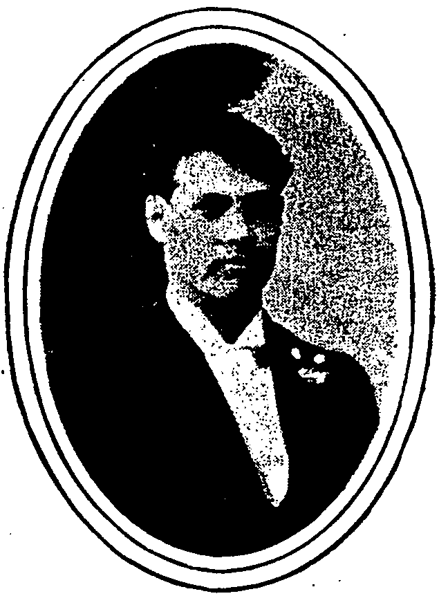 This is a figure from The Fremantle Wharf Crisis of 1919, a pamphlet published in 1920 by the Australian Labor Federation.